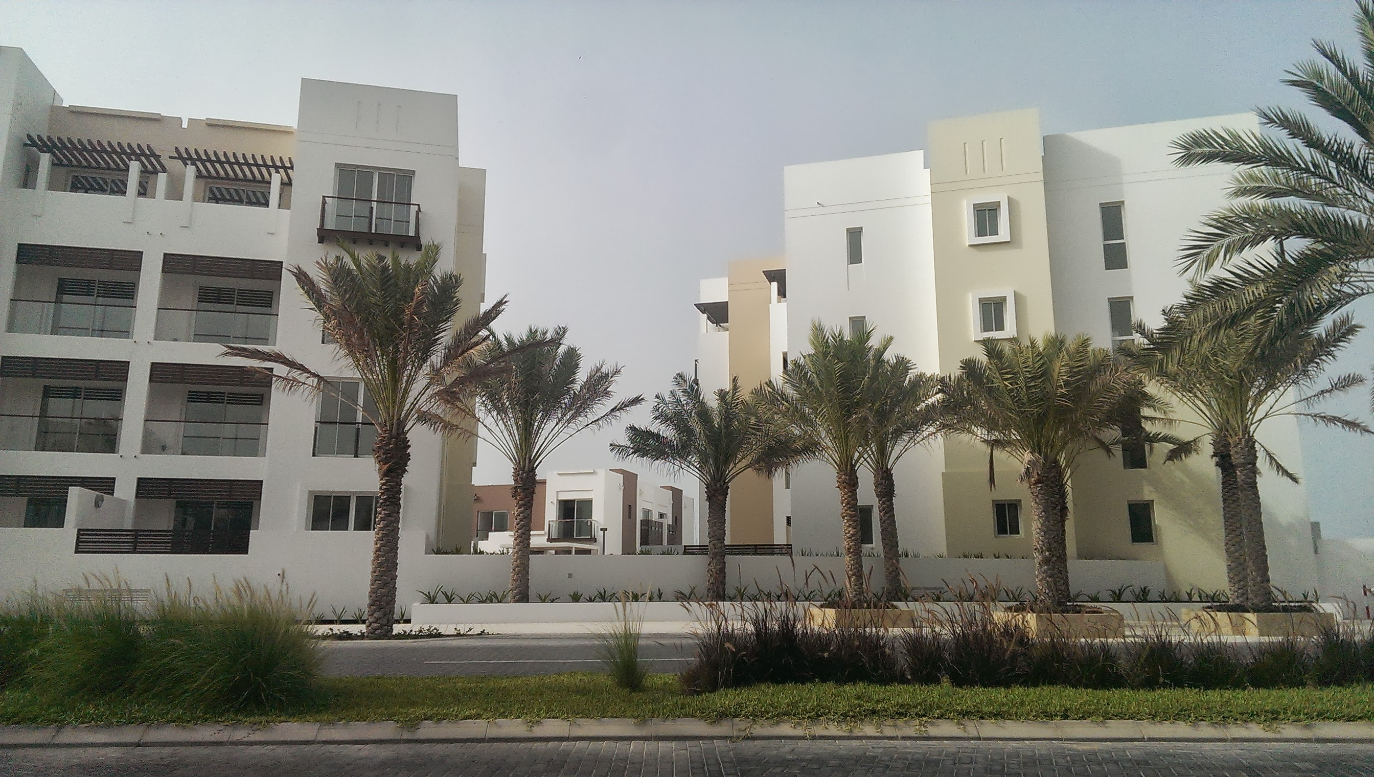 The Wave